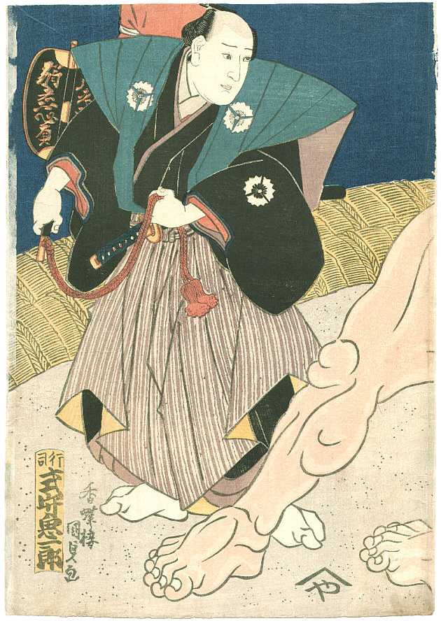 Sumo wrestling, three pieces, left part